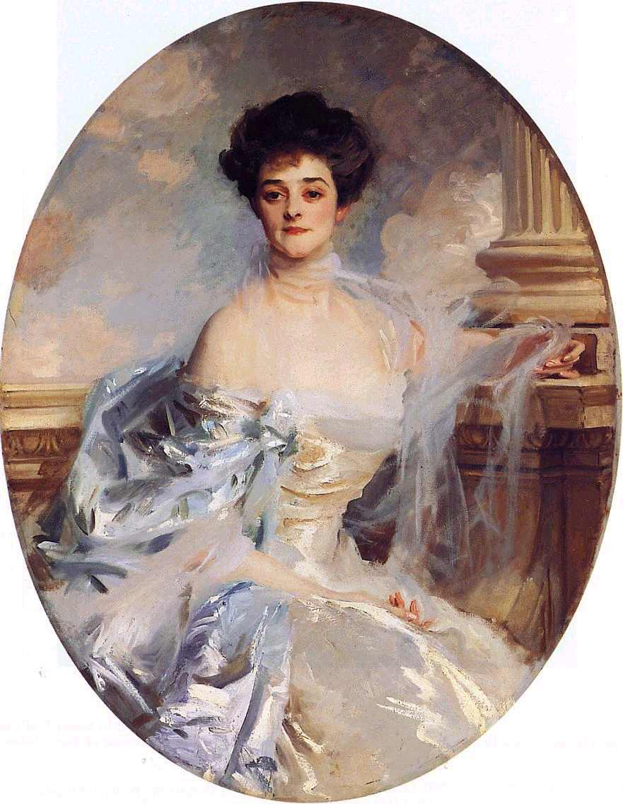 The Countess of Essex John Singer Sargent -- American painter 1906 Private collection Oil on canvas 49.5 x 38.2 in. Jpg: The Athenaeum